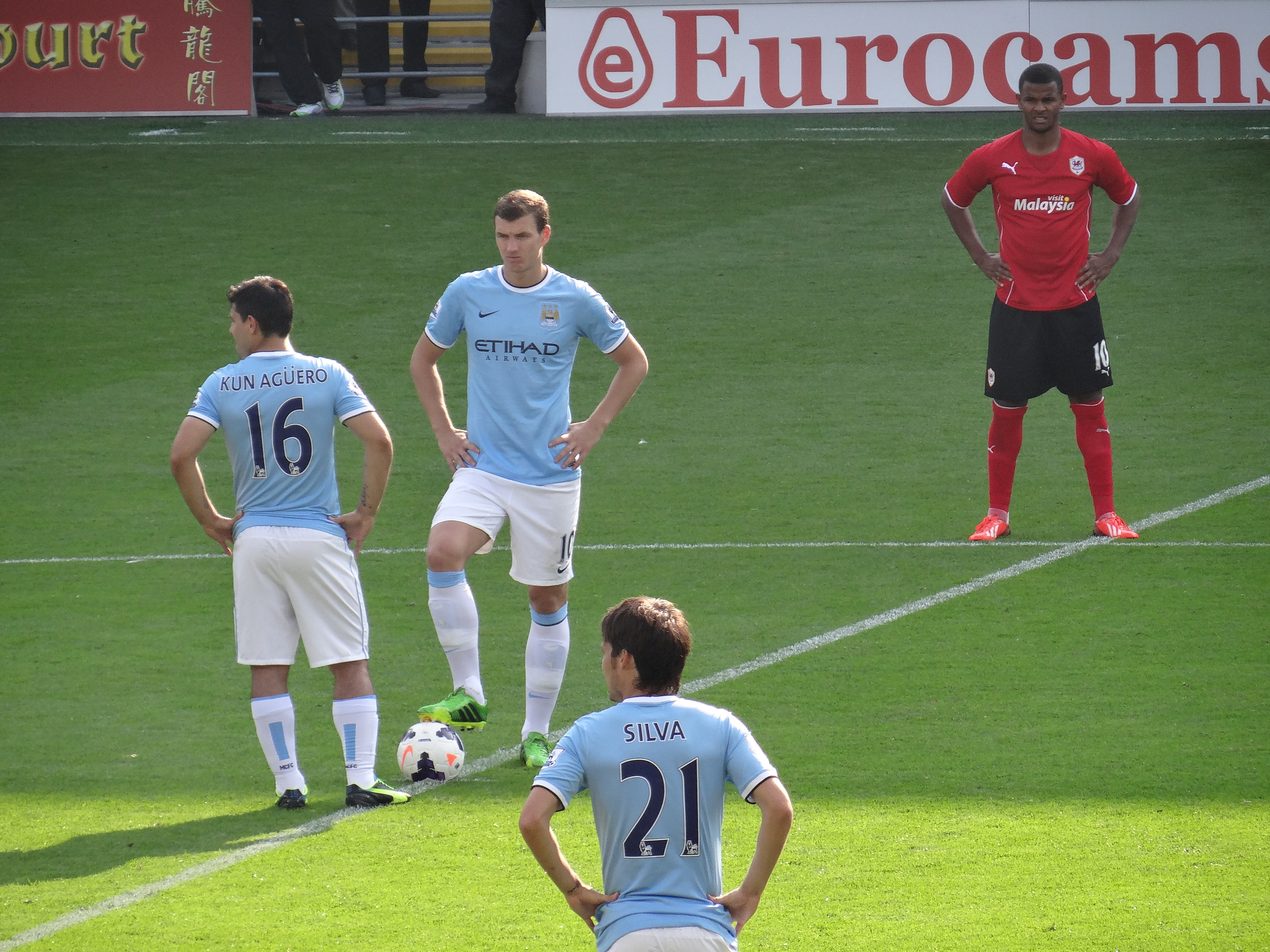 Edin Dzeko of Manchester City kicks off. 25/08/13 Cardiff City v Manchester City, Premier League, Cardiff City Stadium, Cardiff, Wales